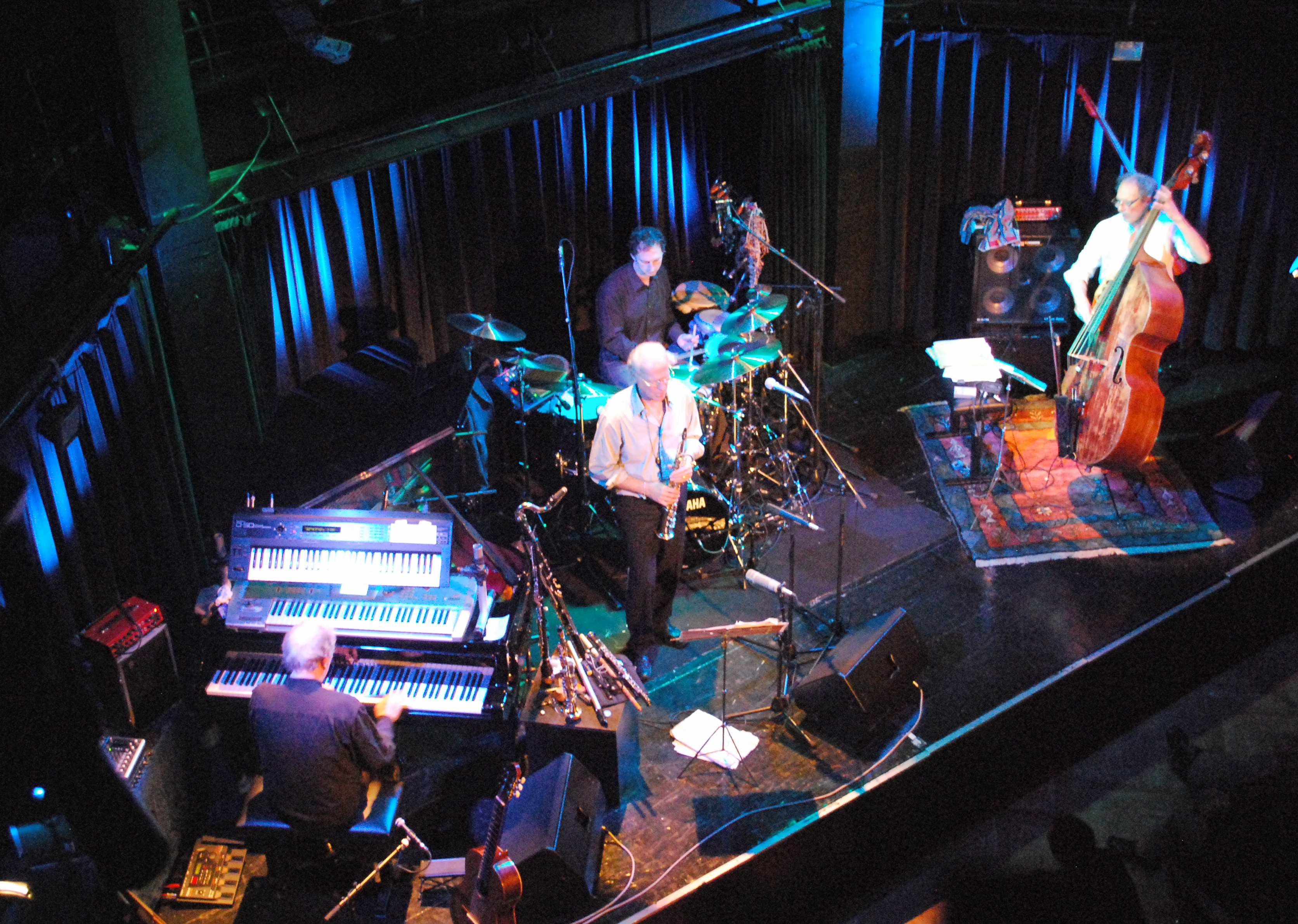 Oregon, Treibhaus Innsbruck 2010